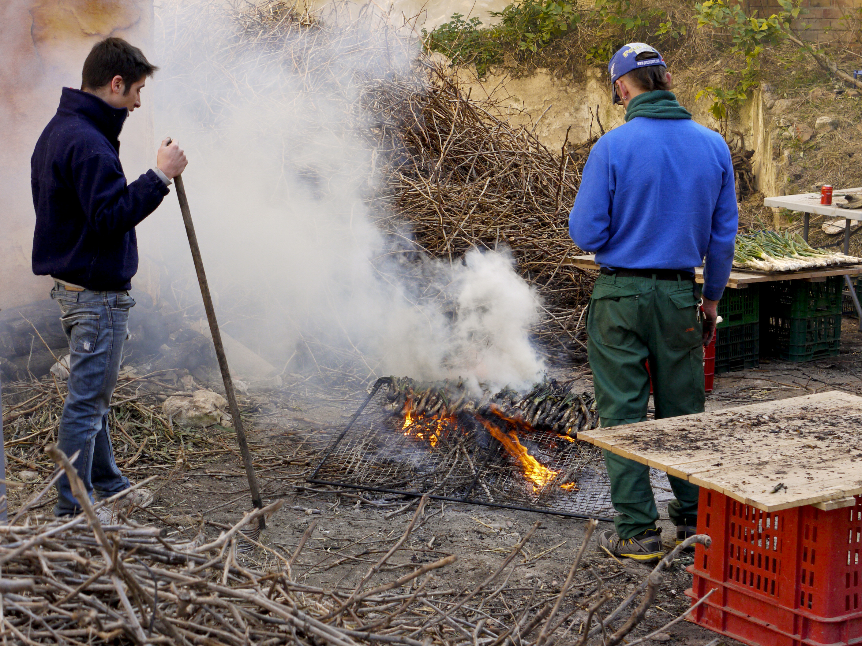 Preparing of calçots over open fire, Valls, Tarragona, Spain.